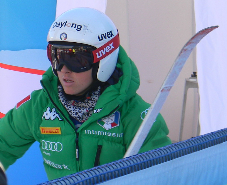 Irene Curtoni of Italy after the Audi FIS Alpine Ski World Cup Women's Giant Slalom on December 28, 2015 in Lienz, Austria